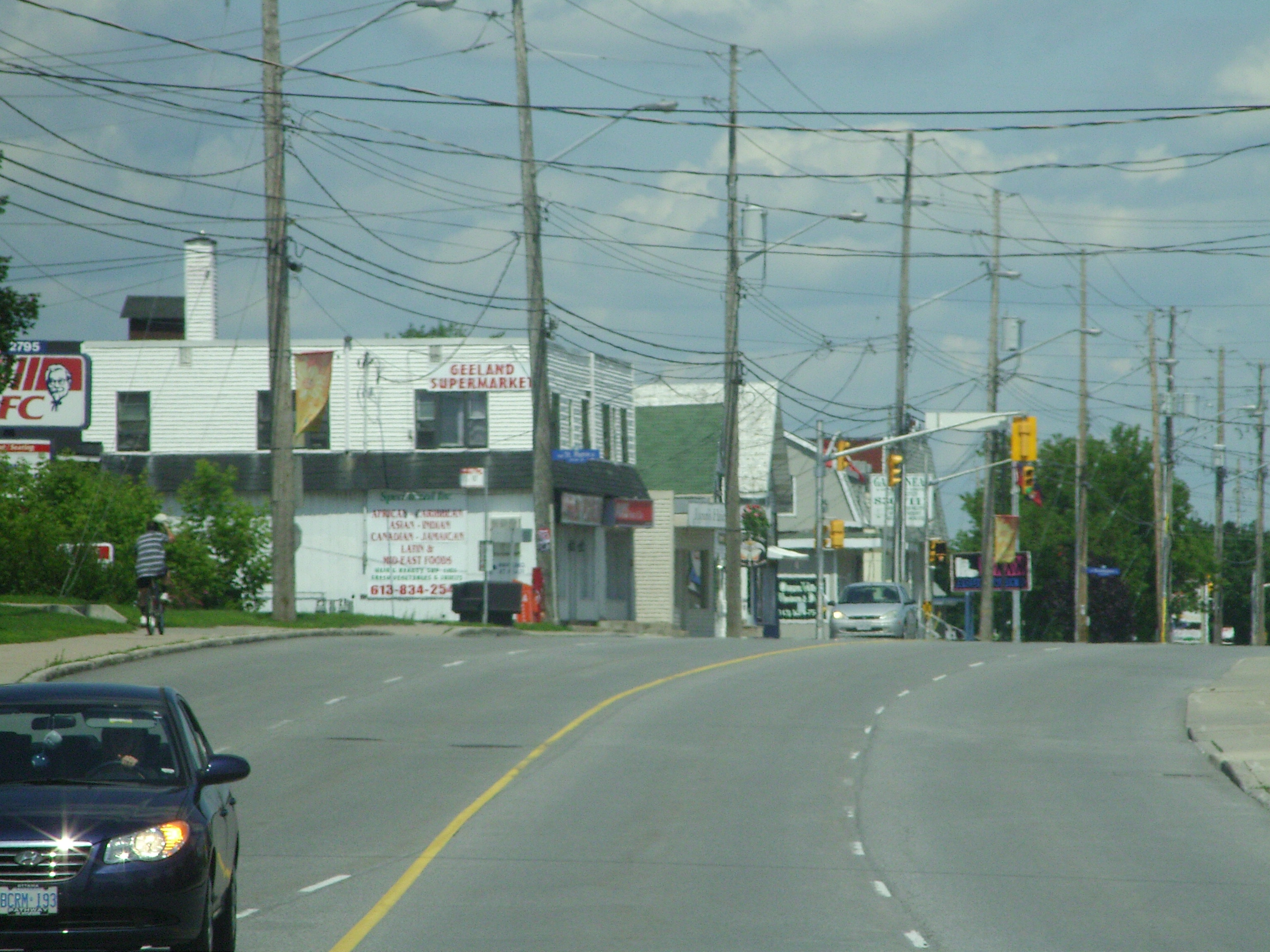 Streetscape along Boulevard St. Joseph in Orleans, Ontario.